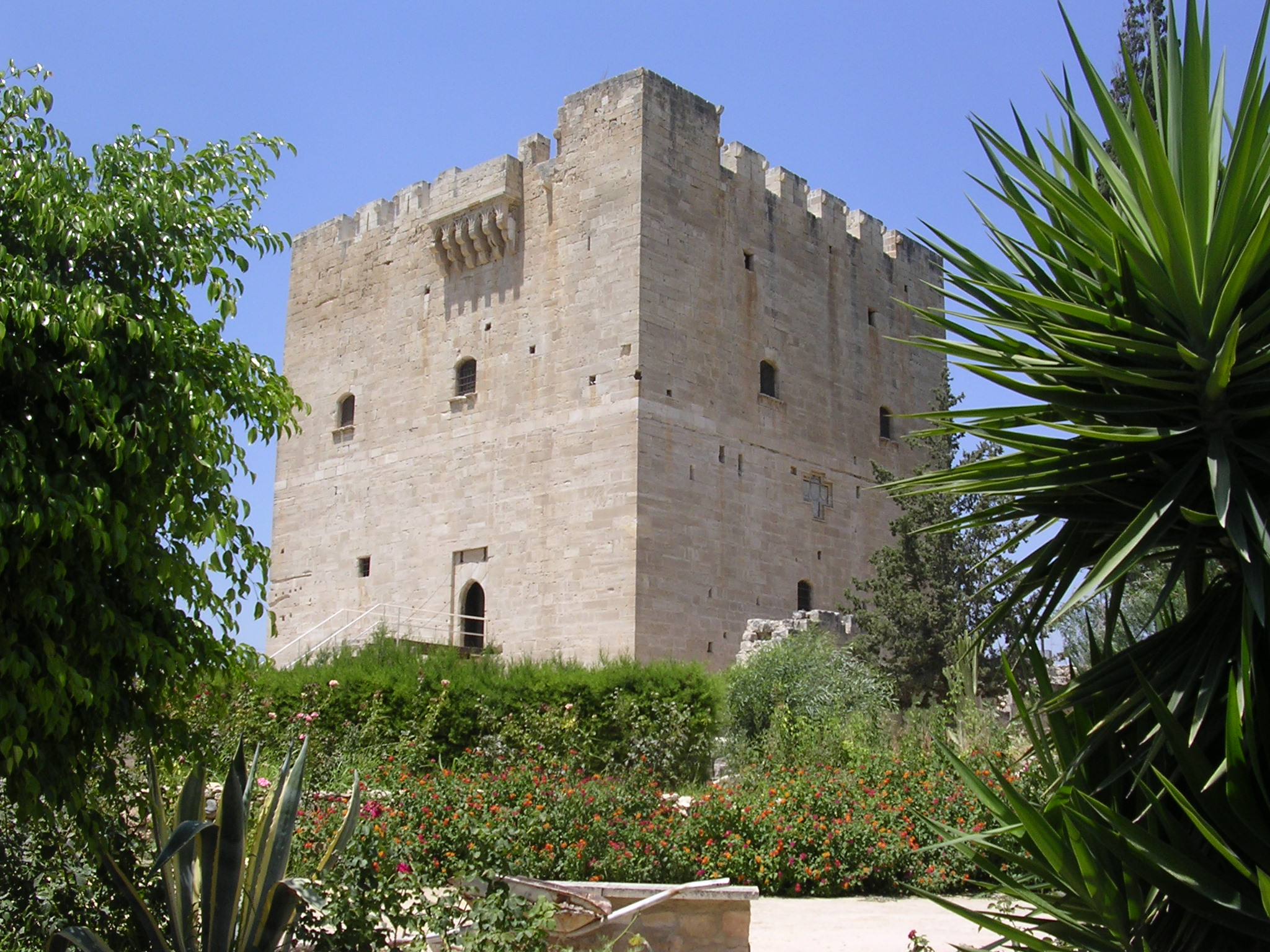 Kolossi Castle outside the city of Limassol, Cyprus